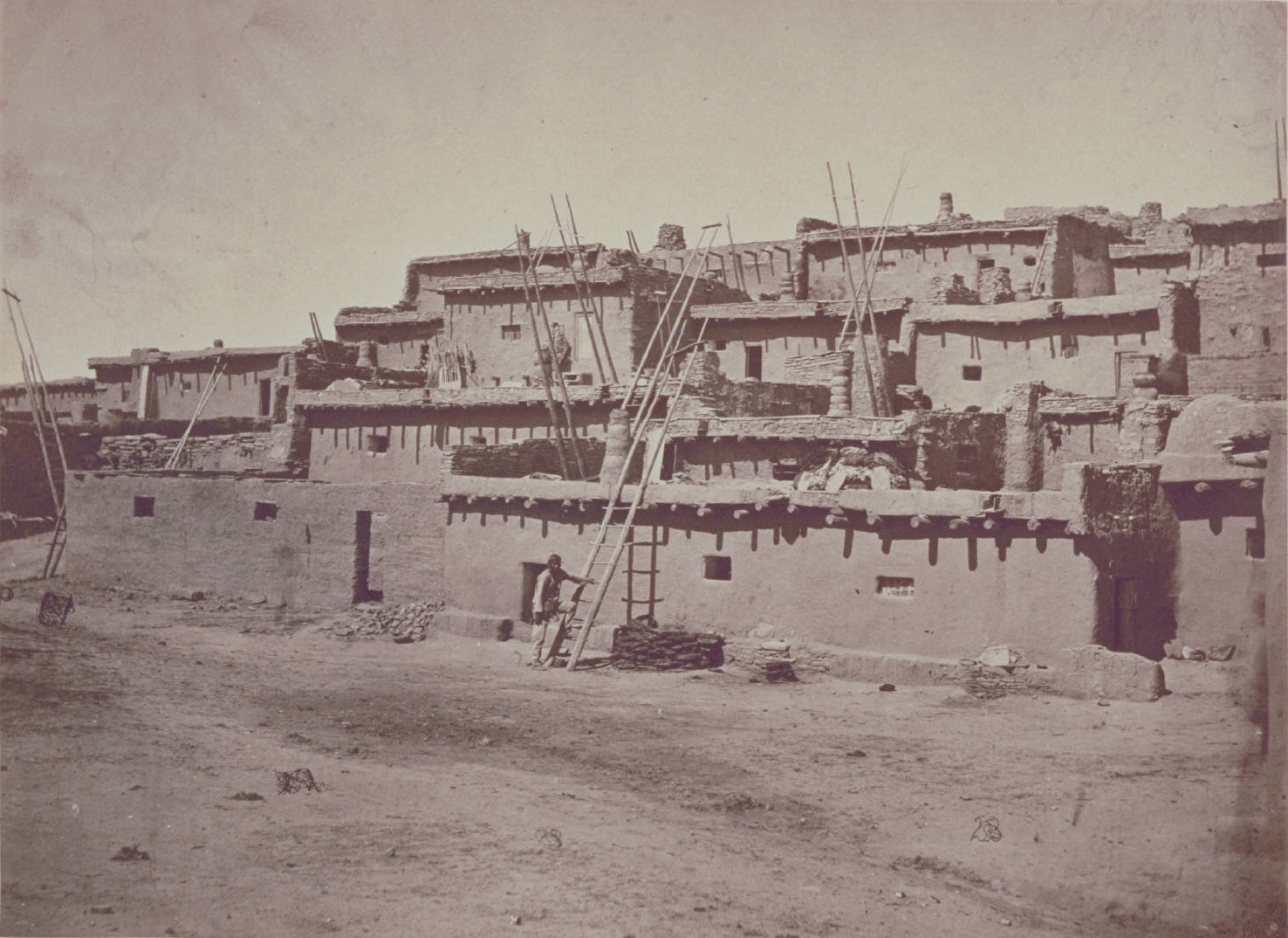 Wheeler, George M., 1st Lt. --Photographs Showing Landscapes, Geological and Other Features, of Portions of the Western Territory of the United States obtained in Conjunction With...Explorations and Surveys West of the 100th Meridian.-- Washington, DC: Corps of Engineers, U.S. Army, 1871, 1872, 1873.